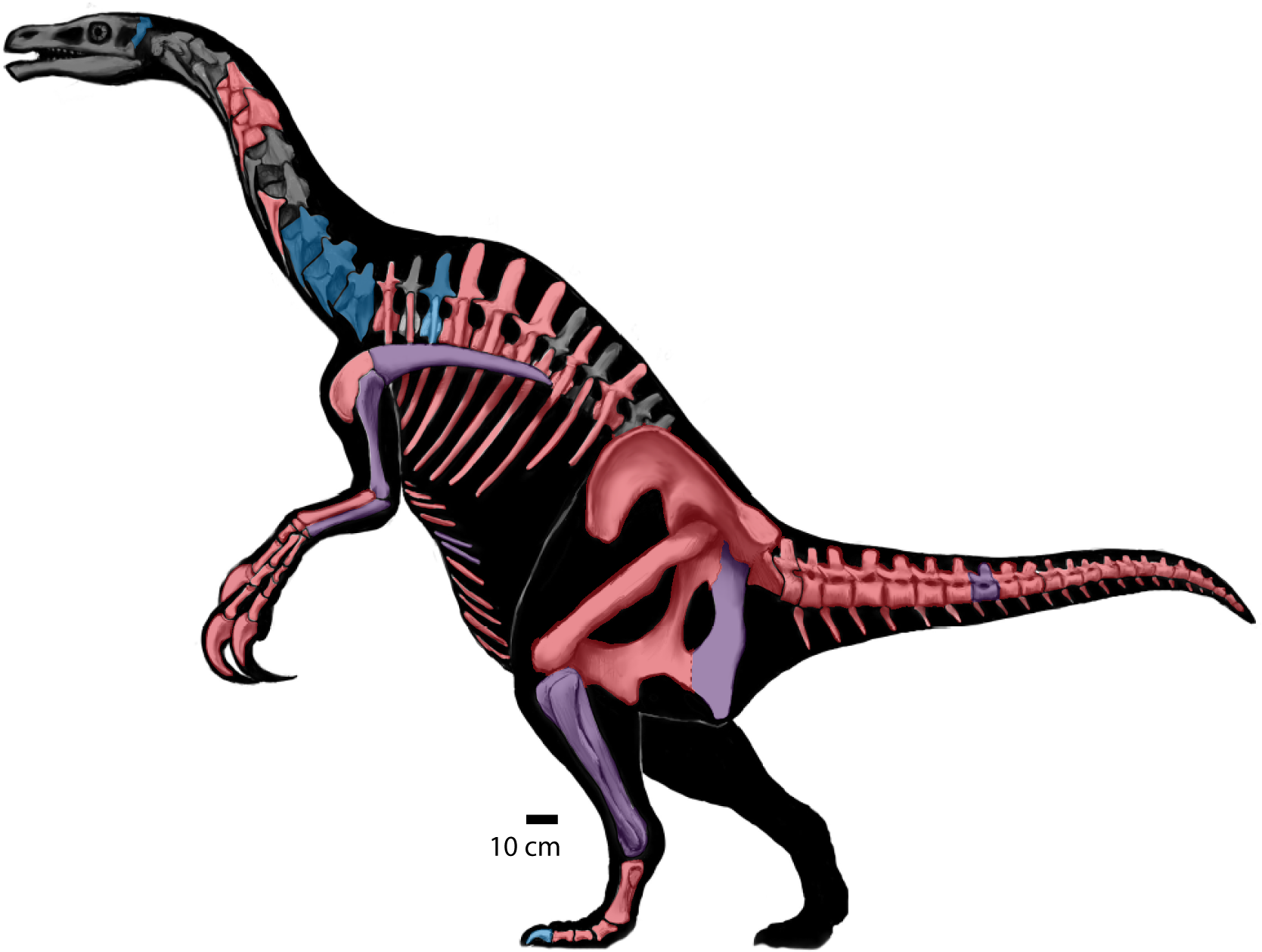 Nothronychus. Skeletal reconstruction of Nothronychus sp. (based on Zanno et al. 2009). Blue elements indicate presence in MSM P2117 (No. mckinleyi). Red elements indicate presence in UMNH V16420 (No. graffami). Purple elements are present in both specimens of Nothronychus.